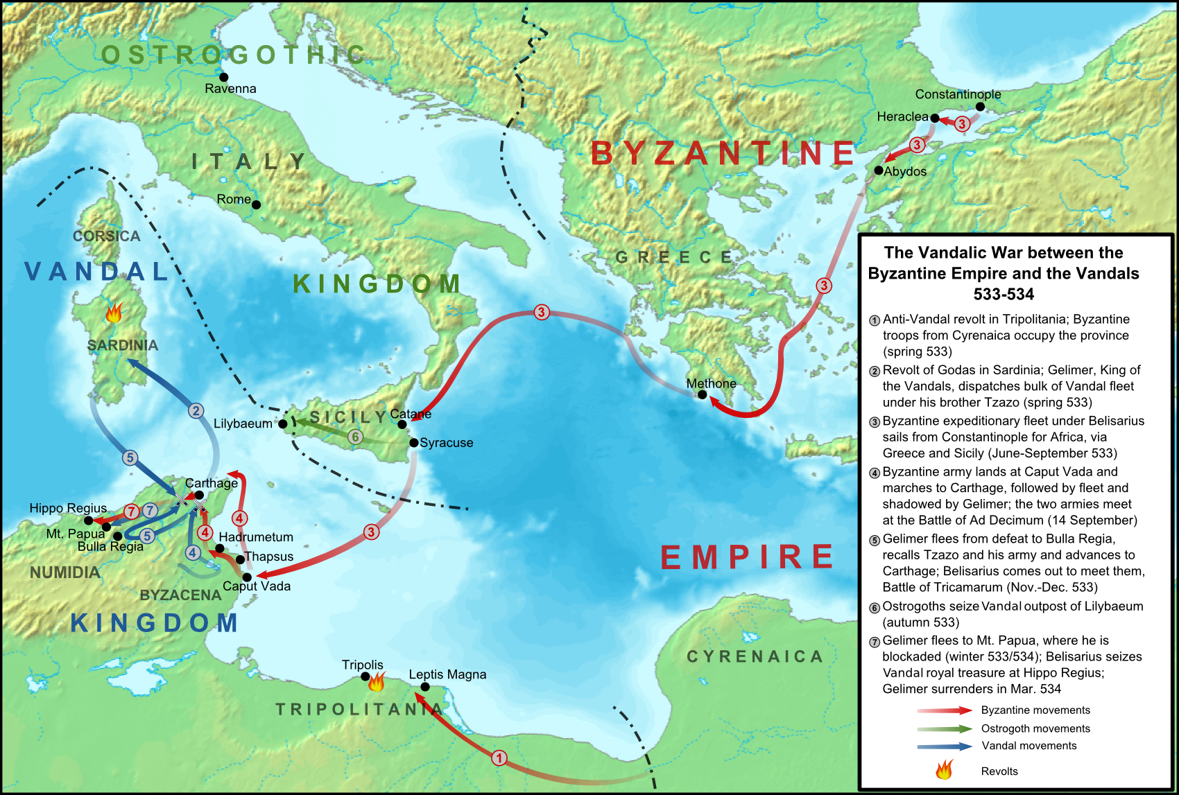 Map of the operations of the Vandalic War in 533-534, including the rebellions on Tripolitania and Sardinia. Topography taken from from DEMIS Mapserver, which are public domain, other wise self-made. Sources: The History of the Wars by Procopius of Caesarea; J.B. Bury, History of the Later Roman Empire; James Allan Stewart Evans, The Age of Justinian: The Circumstances of Imperial Power, ISBN 9780415022095; Ian Hughes, Belisarius: The Last Roman General, ISBN 9781594160851.